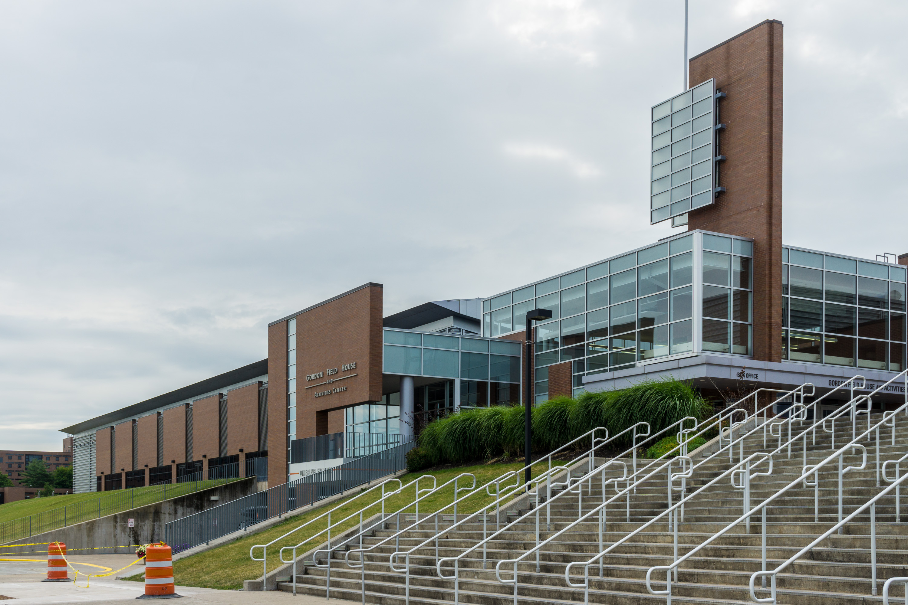 Gordon Field House at Rochester Institute of Technology